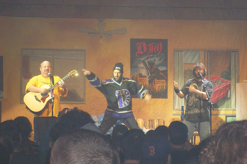 From left to right: Kyle Gass, JR Reed, Jack Black.